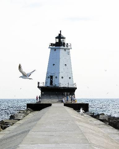 Ludington Lighthouse